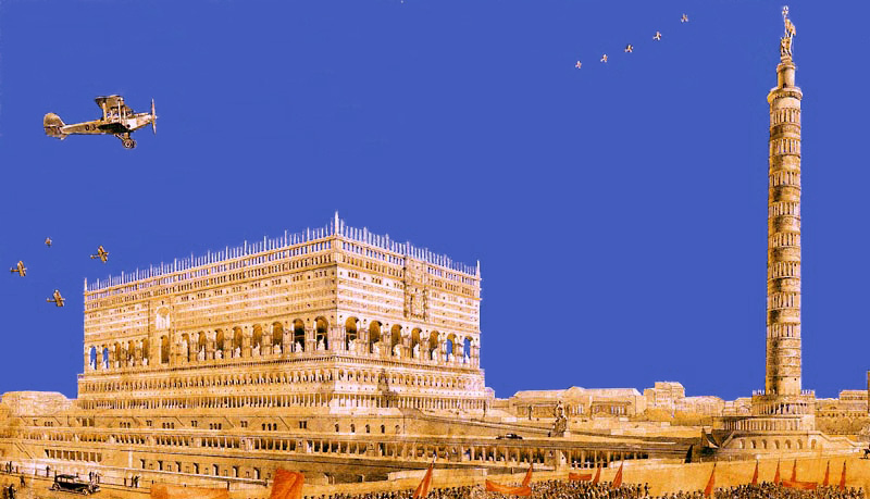 Vladimir Schuko. Draft, Palace of Soviets, second contest